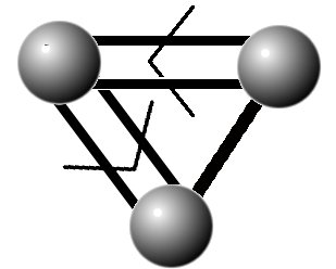 The image of an exceptional Dyknin diagram giving rise to a finite Nichols algebra